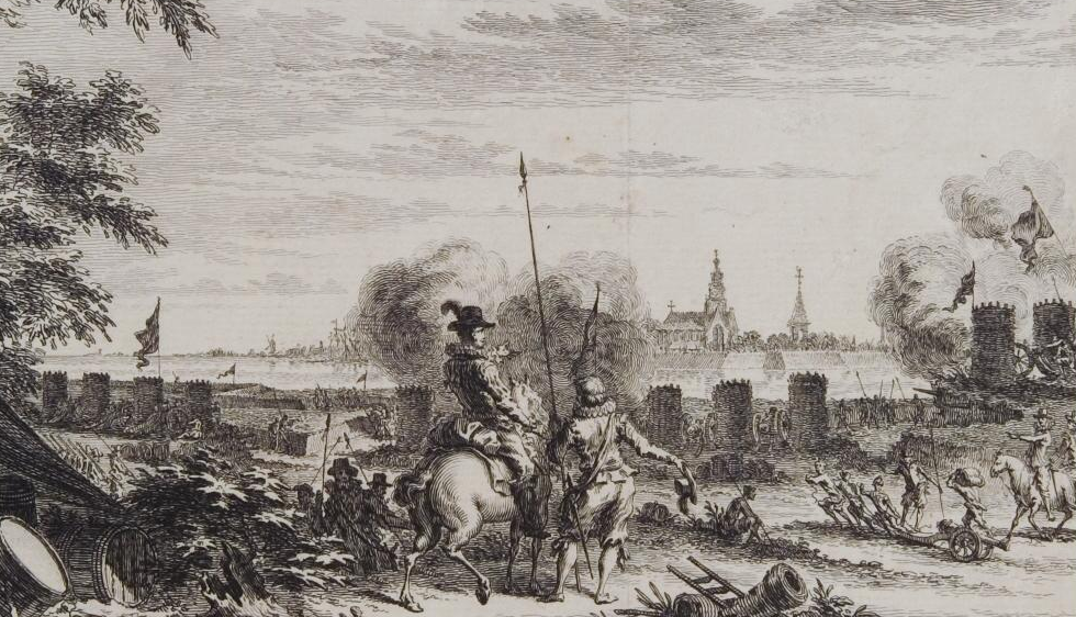 Siege of the city Grave in 1602 (Netherlands)